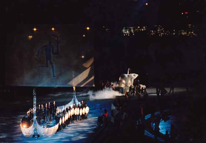 Kjersti Alveberg directing the Norwegian Olympic Ceremony in Albertwille France.